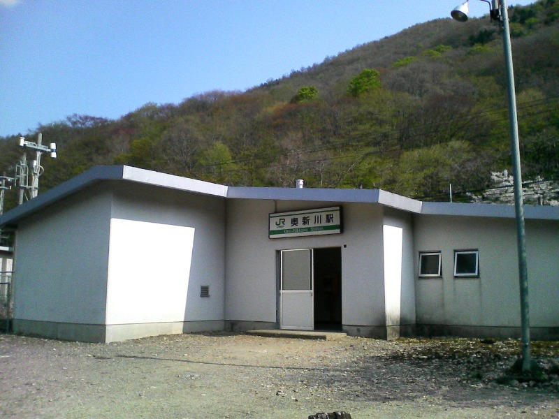 Okunikkawa Station, Sendai, Miyagi, Japan